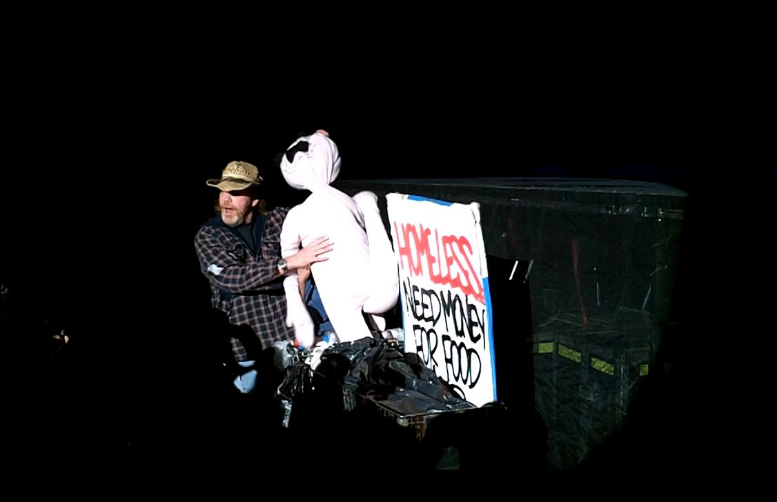 I took this photo from the first row, center stage, using a Kodak Playsport camera.